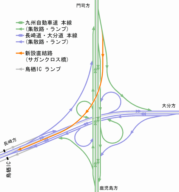 Detail plan image of Tosu Junction.